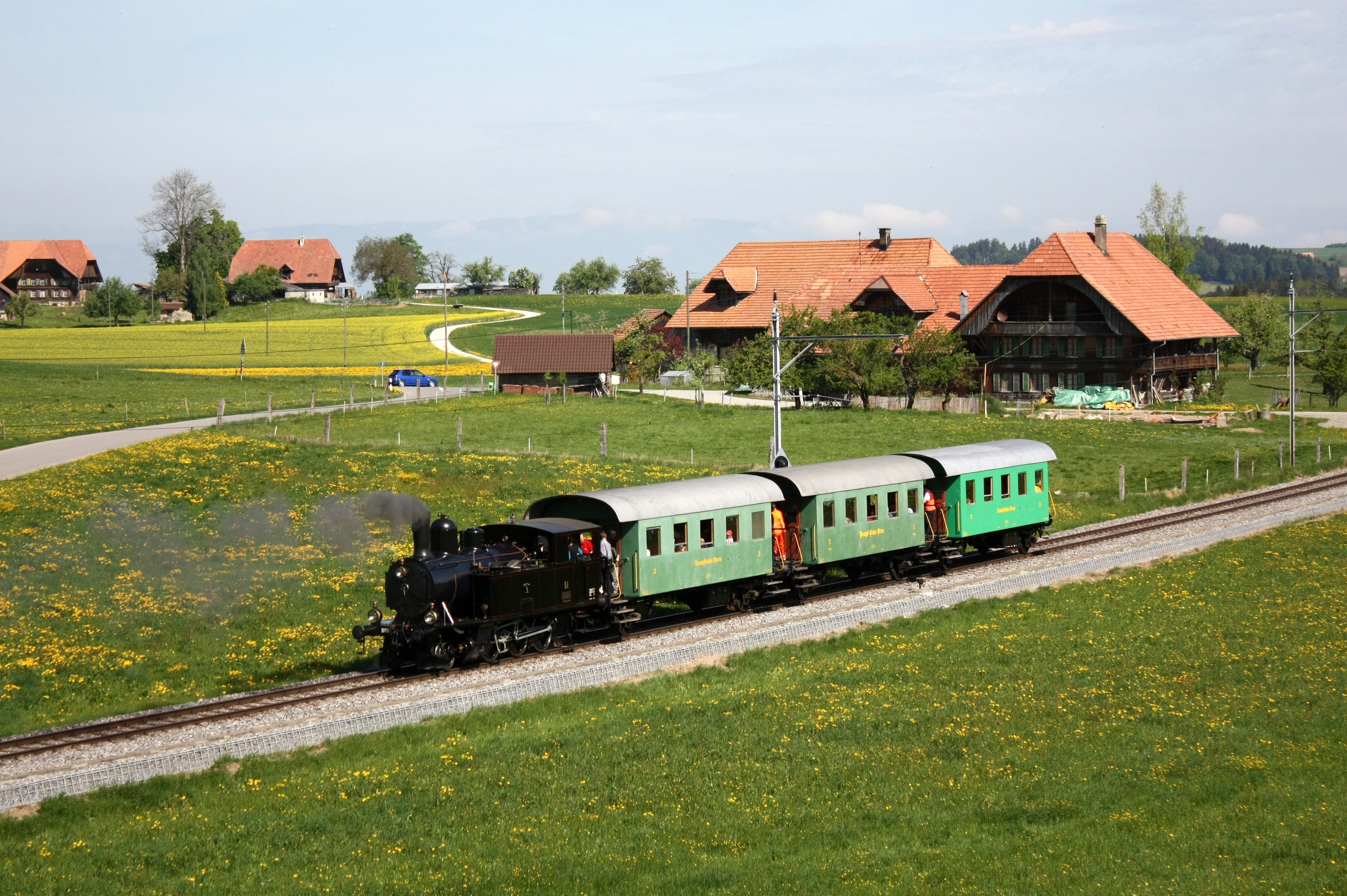 The Ed 3/4 51 ex-Bern–Schwarzenburg-Bahn (now Vereins Dampflok 51 Schwarzenburg/Dampfbahn Bern) back in Schwarzenburg after a ten year renovation's work. Special train between Schwarzenburg and Lanzenhäusern.